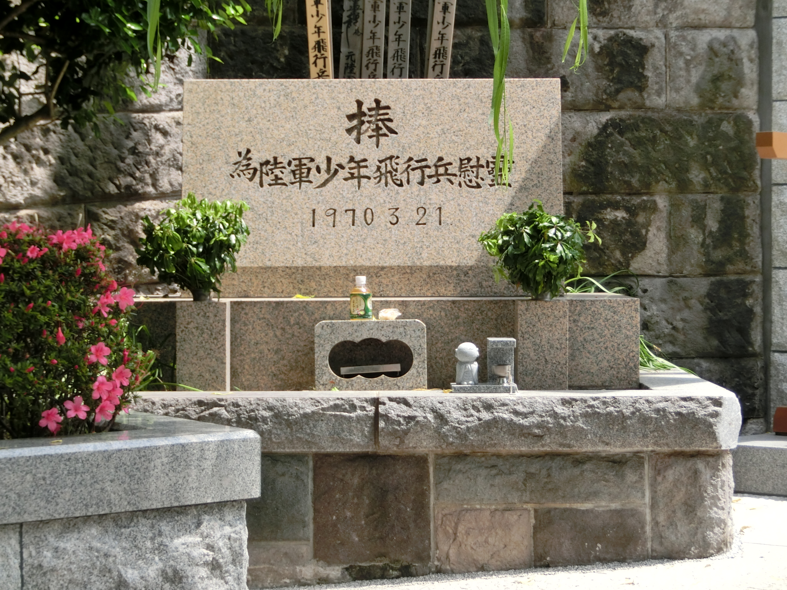 IJA Juvenile Pilots cenotaph